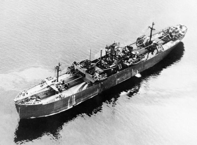 HMS EMPIRE LAWRENCE, circa 1941. At anchor, with aircraft on catapult.